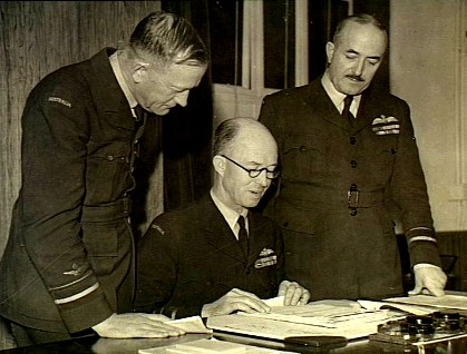 London, England. C. 1941-11. Group portrait taken at RAAF Overseas HQ of Air Vice Marshal (AVM) H. N. Wrigley CBE DFC AFC; Air Marshal R. Williams CB CBE DSO; AVM F. H. McNamara VC CBE.